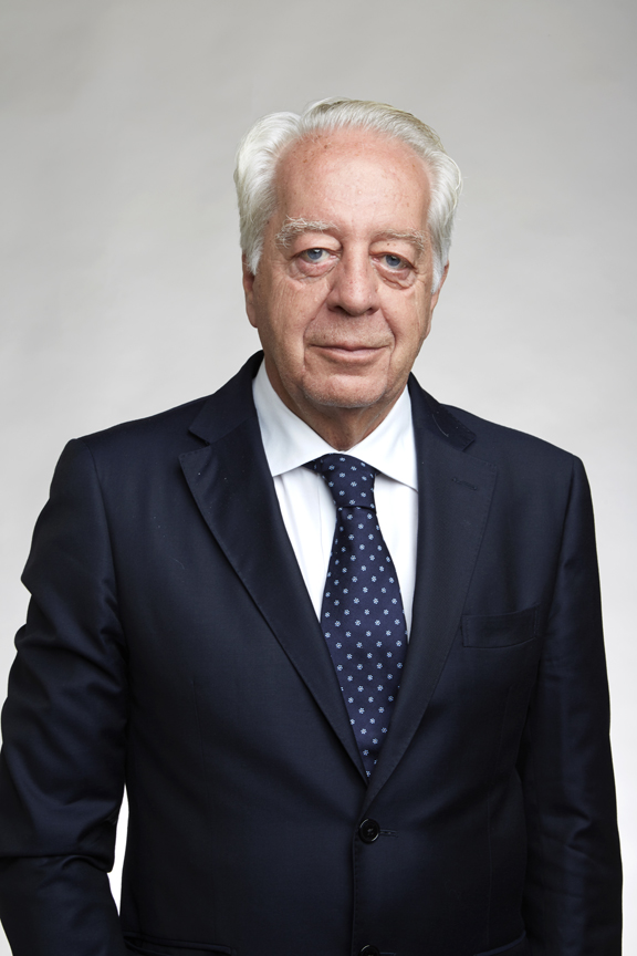 Tullio Pozzan is a Professor at the University of Padua and head of the department of biomedical sciences of the Italian National Research Council Attribution: The Royal Society